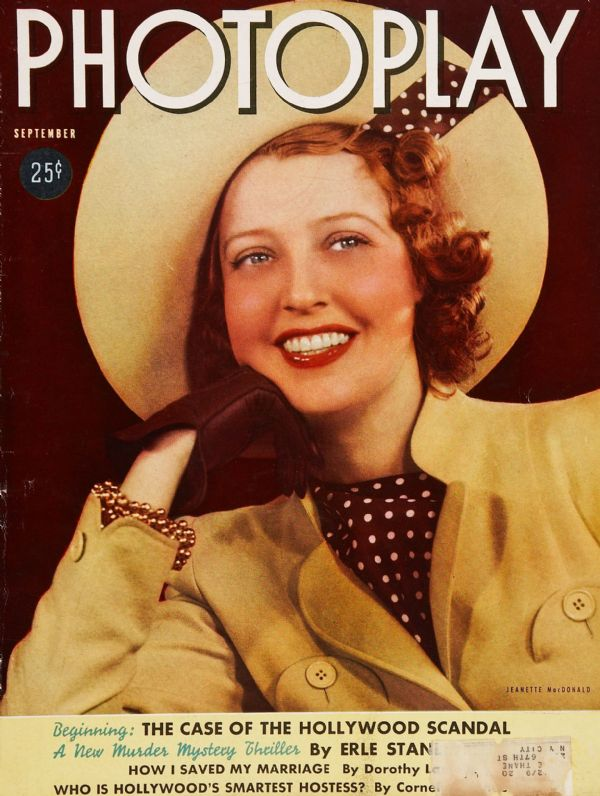 Jeanette MacDonald